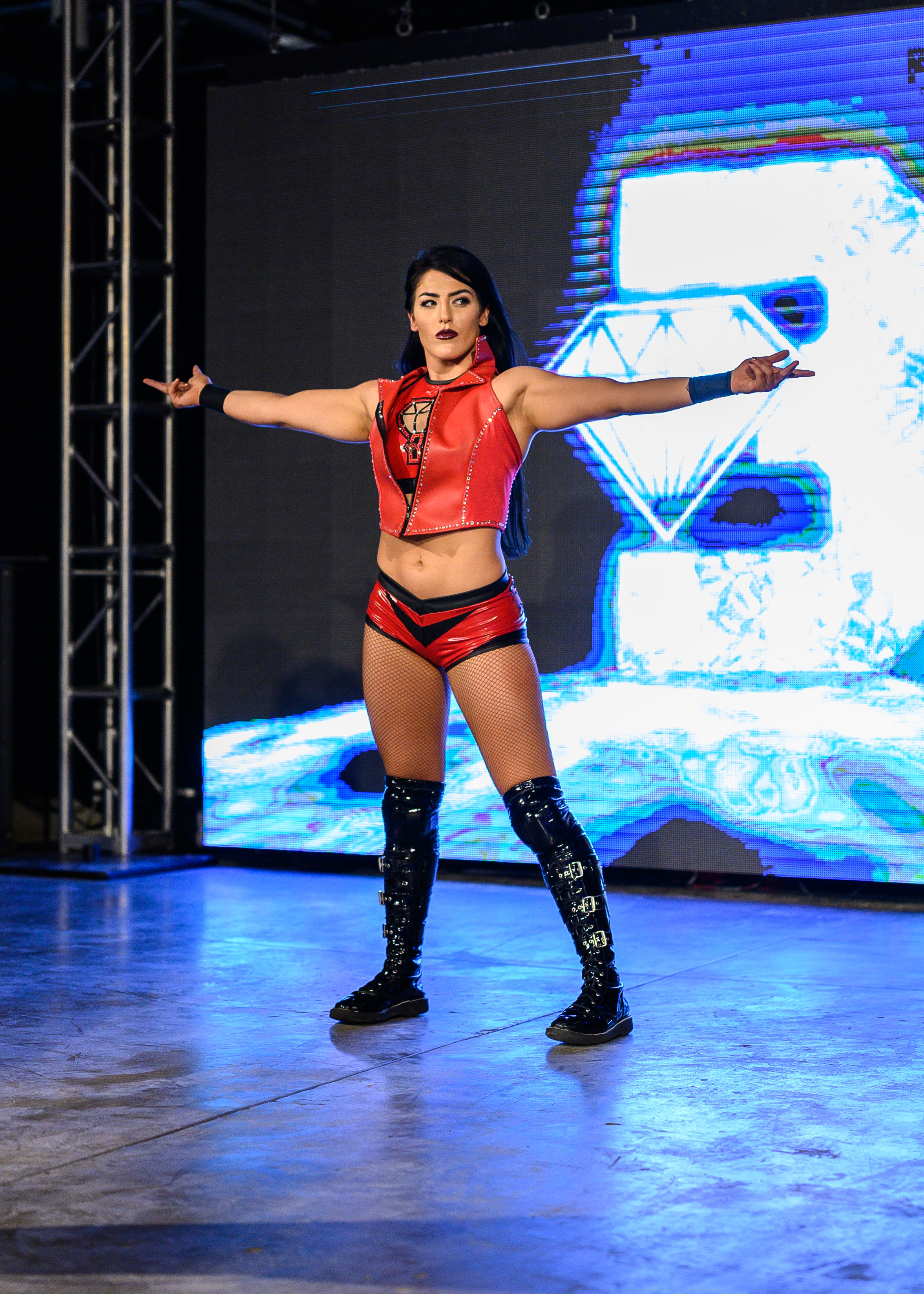 Tessa Blanchard at RCW & IMPACT Wrestling present Bash at the Brewery (July 5, 2019)